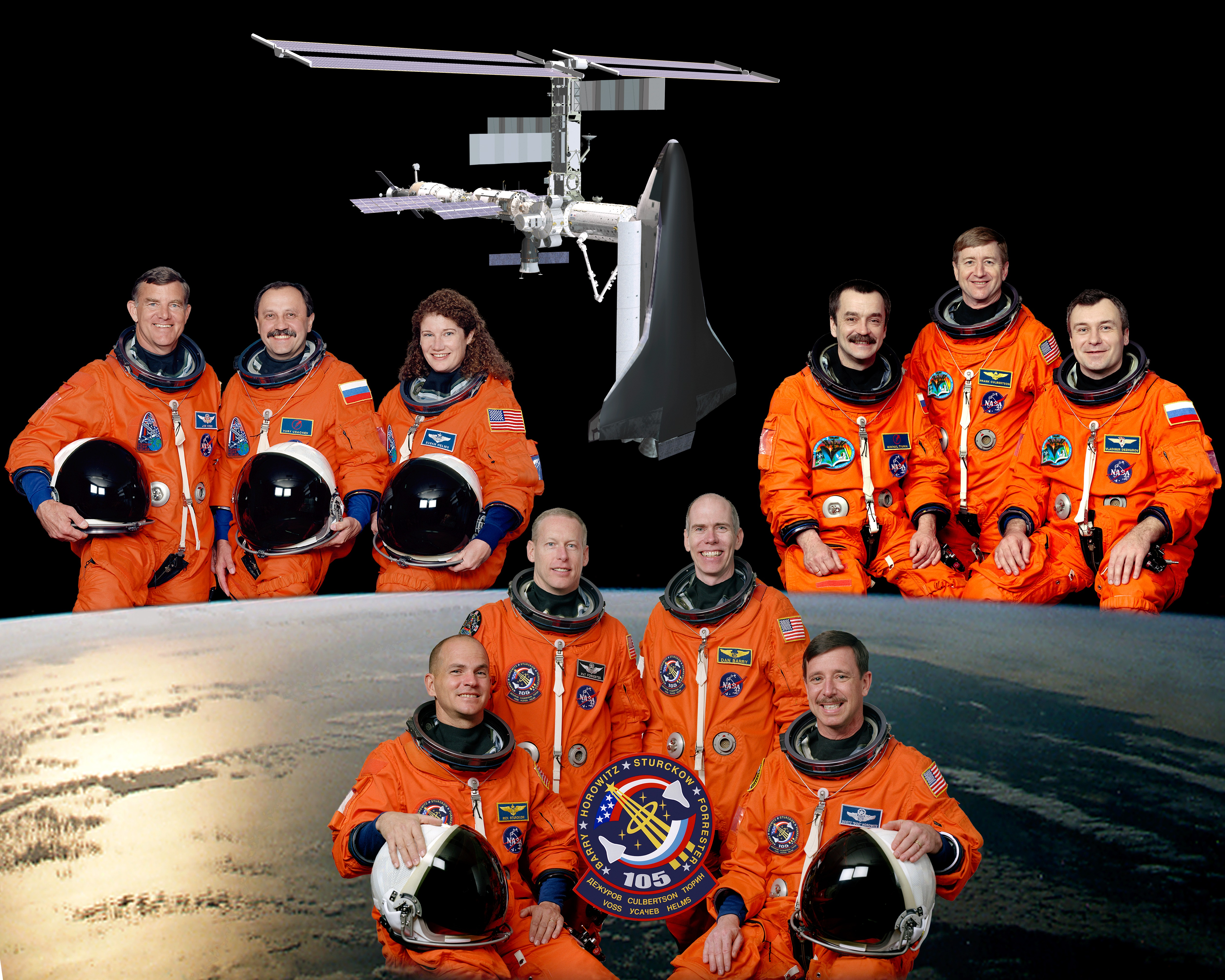 This is the portrait for the astronaut and cosmonaut crew members comprising STS-105, including the base crew (bottom center) of astronauts and the replacement or "up" crew (upper right) who will serve Expedition Three, scheduled to replace the Expedition Two (upper left) cosmonaut/astronaut trio or the "down" crew currently aboard the International Space Station (ISS). Astronaut Scott J. Horowitz (front right in the bottom grouping) is STS-105 crew commander. Joining him are (from left in the same photo) astronauts Frederick W. (Rick) Sturckow, pilot; and Patrick G. Forrester and Daniel T. Barry, both mission specialists. Astronaut Frank L. Culbertson, Jr. (center in the upper right grouping), commander, is flanked by cosmonauts Mikhail Tyurin (left) and Vladimir N. Dezhurov, both flight engineers representing Rosaviakosmos. Expected to move from the station over to the Space Shuttle Discovery for their return to Earth after a long stay aboard the ISS are (from left in the upper left gathering) astronaut James S. Voss, cosmonaut Yury V. Usachev and astronaut Susan J. Helms. Usachev, representing Rosaviakosmos, is Expedition Two commander; with Voss and Helms serving as flight engineers.